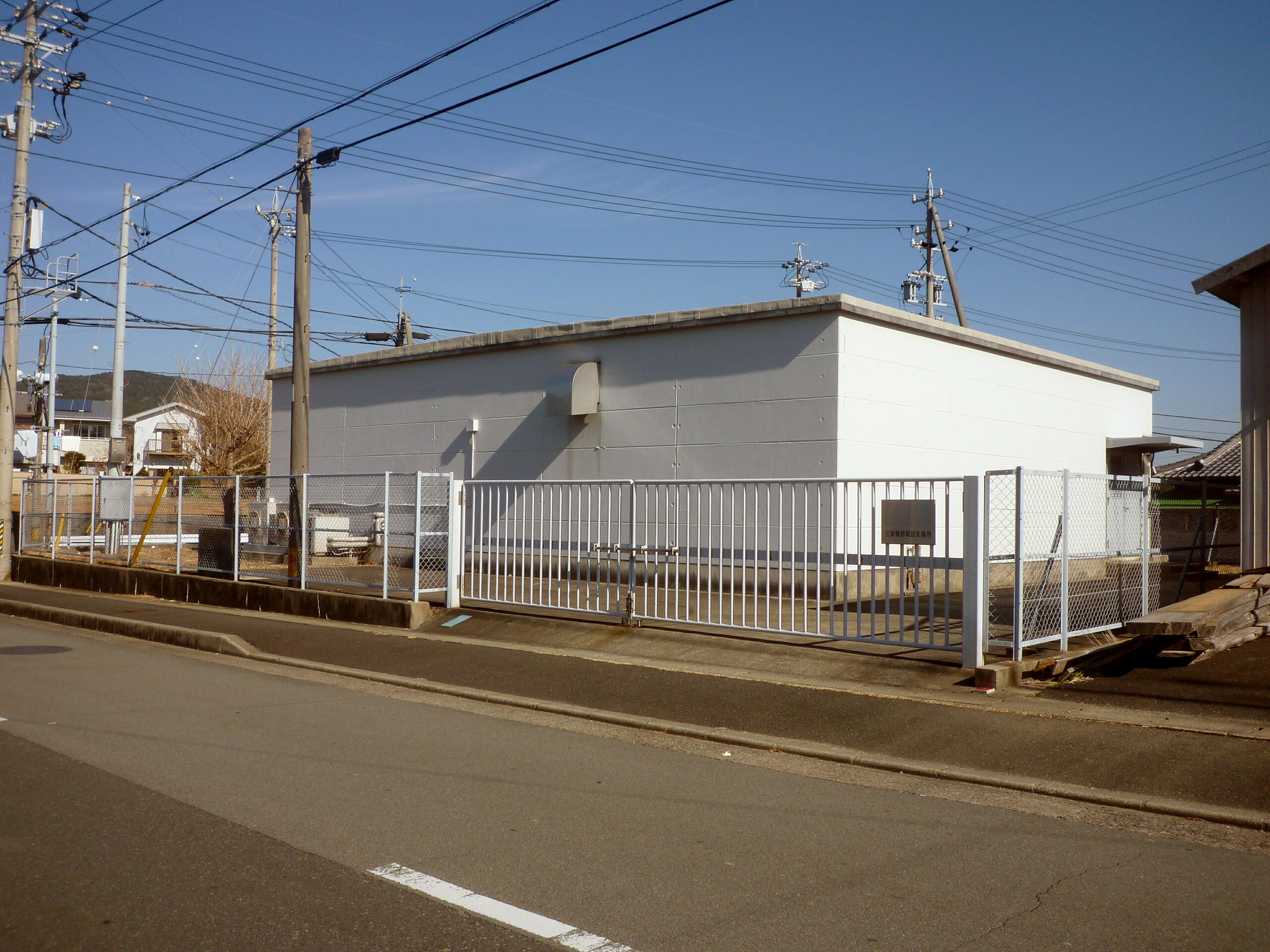 The "NTT Mie-Isobe Telephone Exchange Building" in Isobe-chō-Hasama, Shima City, Mie Prefecture, Japan.